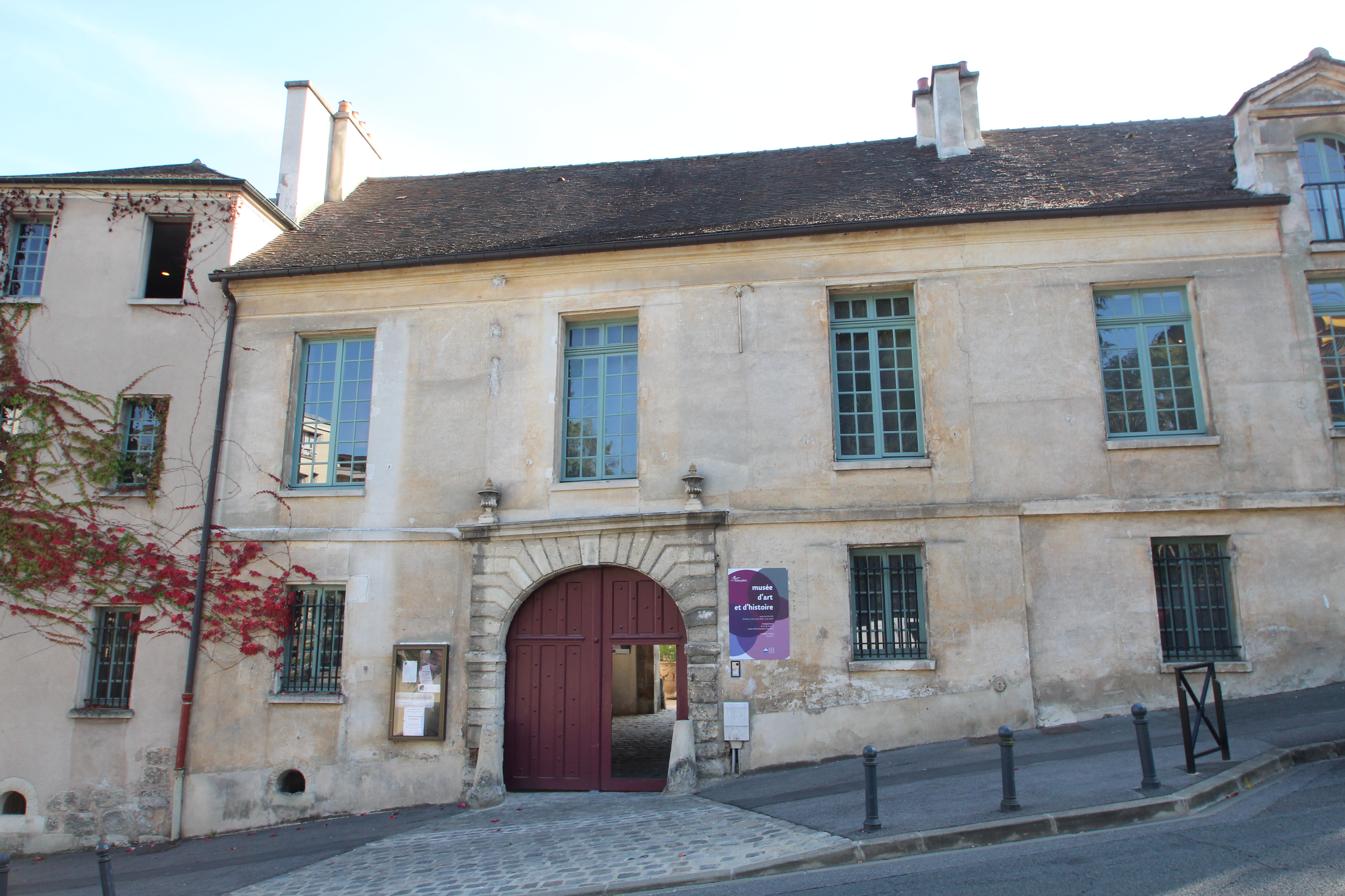 Armande Béjart house in Meudon, France. . Object location48° 48′ 22.92″ N, 2° 14′ 05.74″ E